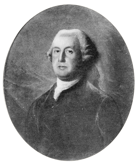 Engraving after a portrait by John Singleton Copley of Francis Bernard, colonial governor of Massachusetts and New Jersey.